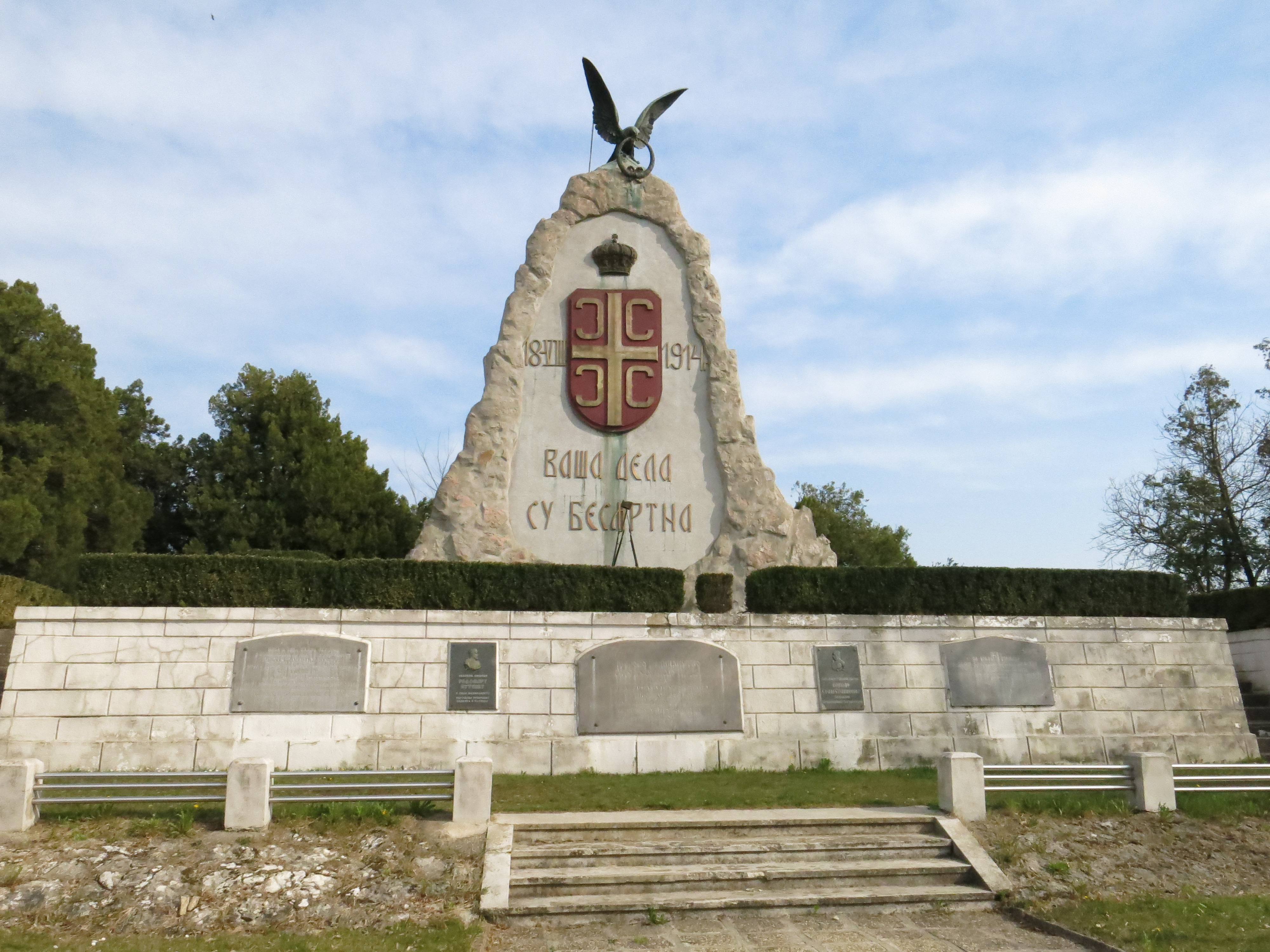 Tekeriš, Monument to the heroes of Cer